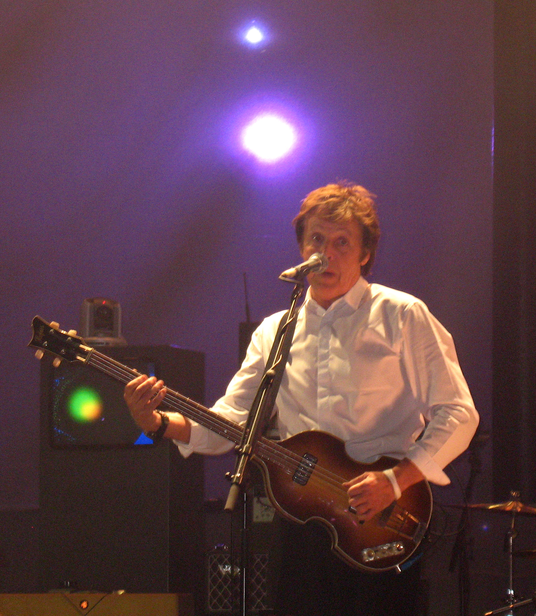 The world's most famous Hofner Violin bass guitar in the hands of its even more famous owner, during his closing encore performance of Get Back at his BBC Electric Proms concert at the Roundhouse, Camden, London, England. For more pictures, songs and videos from this truly amazing one off gig, The full set list for this superb concert was... Magical Mystery Tour Flaming Pie Got To Get You Into My Life Dance Tonight Only Mama Knows C Moon The Long And Winding Road Follow The Sun That Was Me Here Today Blackbird Calico Skies Eleanor Rigby Band On The Run Back in the USSR House Of Wax I've Got A Feeling Live And Let Die Hey Jude Let It Be Lady Madonna I Saw Her Standing There Get Back And that's a lot of good music...especially the Lennon/McCartney songs! Taken on October 25, 2007.